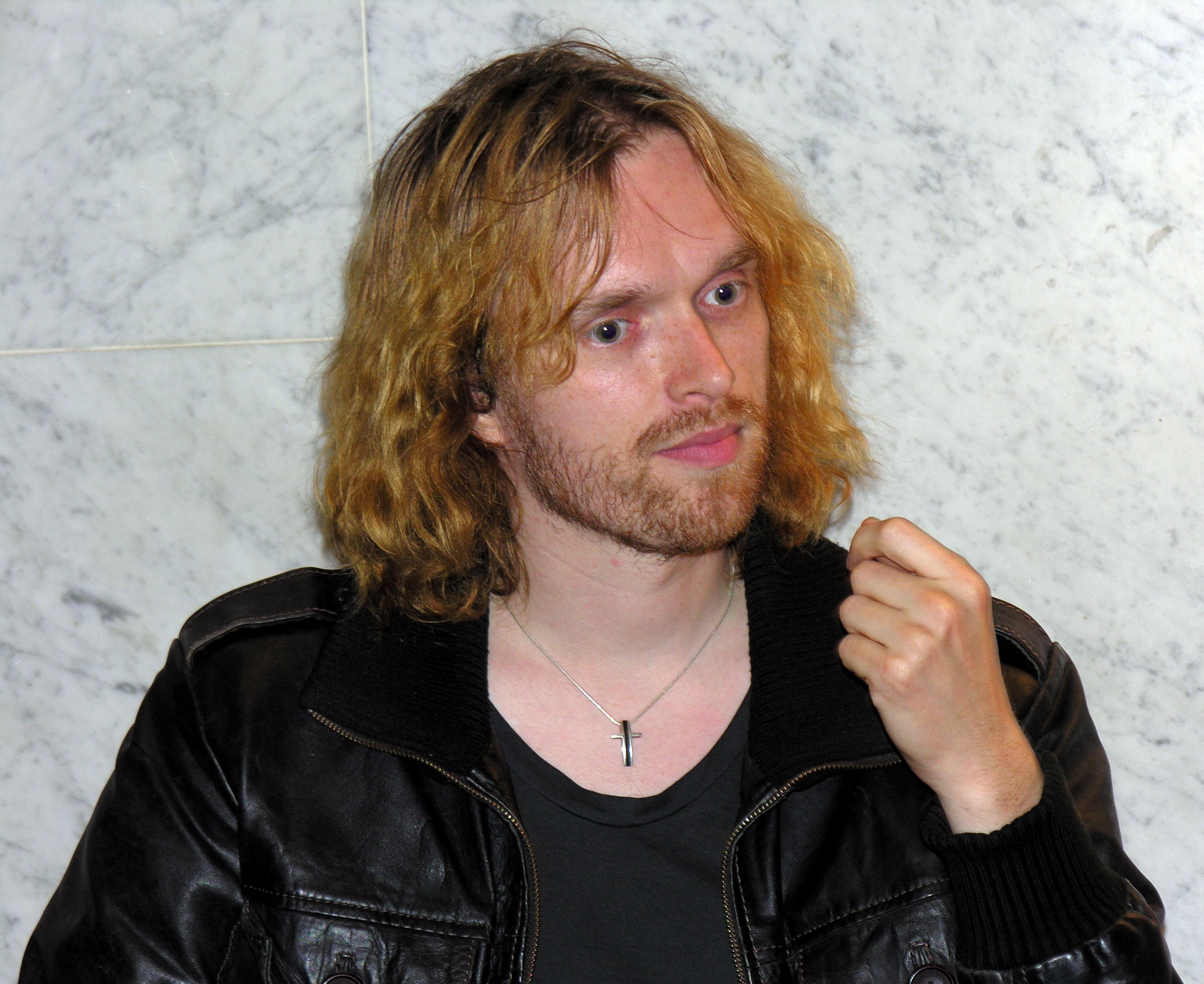 Anssi Kela, Finnish singer-songwriter, the Night of the Arts in Helsinki, 2008.